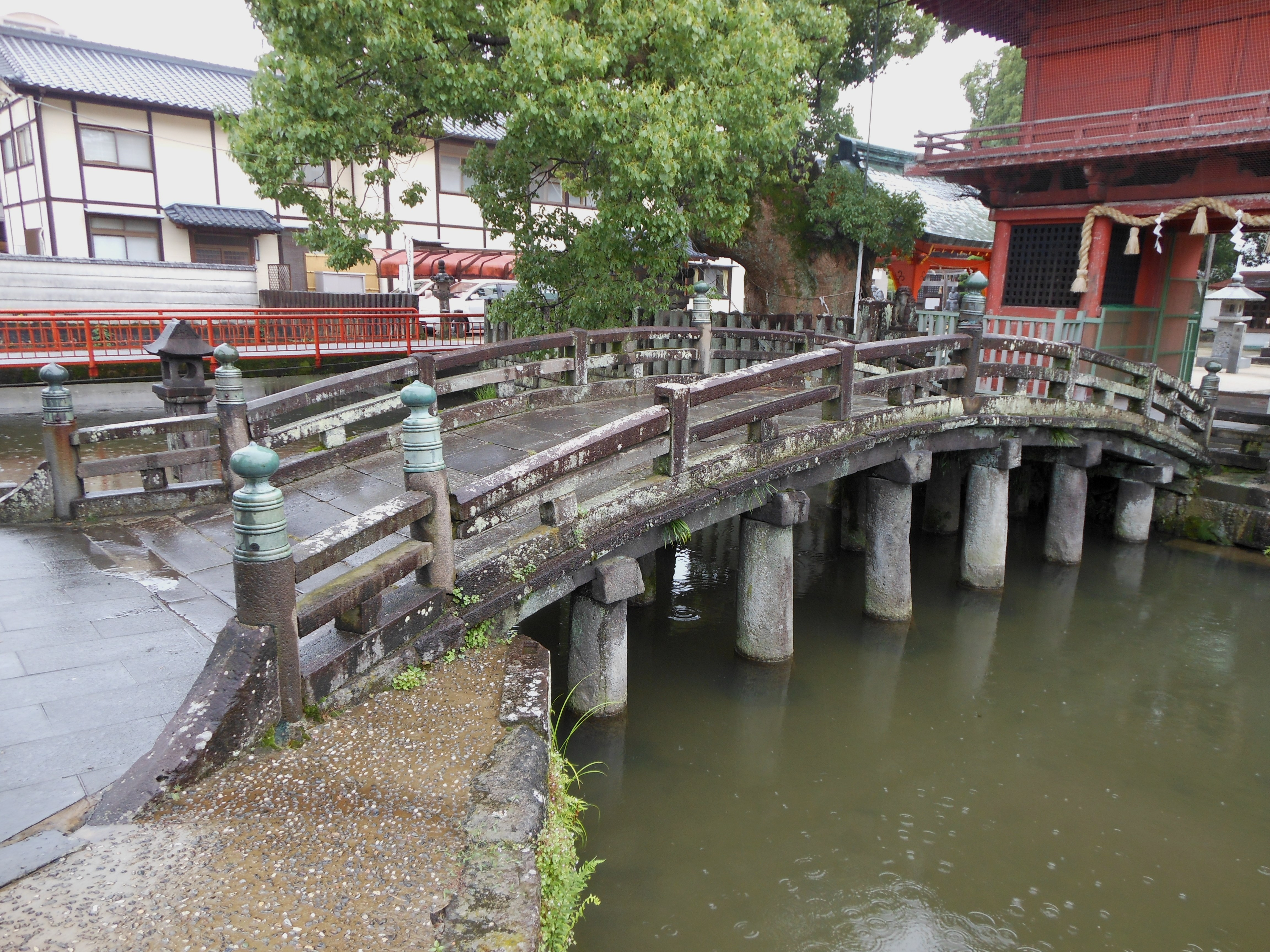 Front bridge of Yoka-jinja Shrine, Saga city, Saga prefecture.